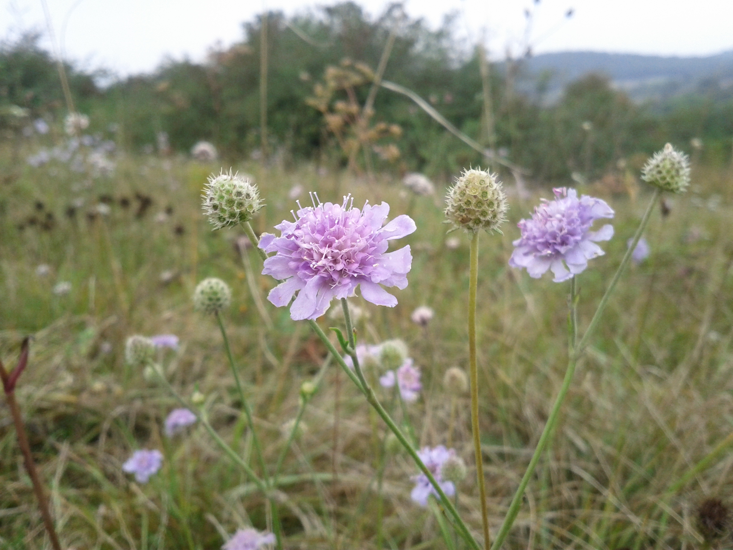 Inflorescence Taxonym: Scabiosa canescens ss Fischer et al. EfÖLS 2008 ISBN 978-3-85474-187-9 Location: Stetter Berg, district Korneuburg, Lower Austria - ca. 250 m a.s.l. Habitat: semi-dry grassland